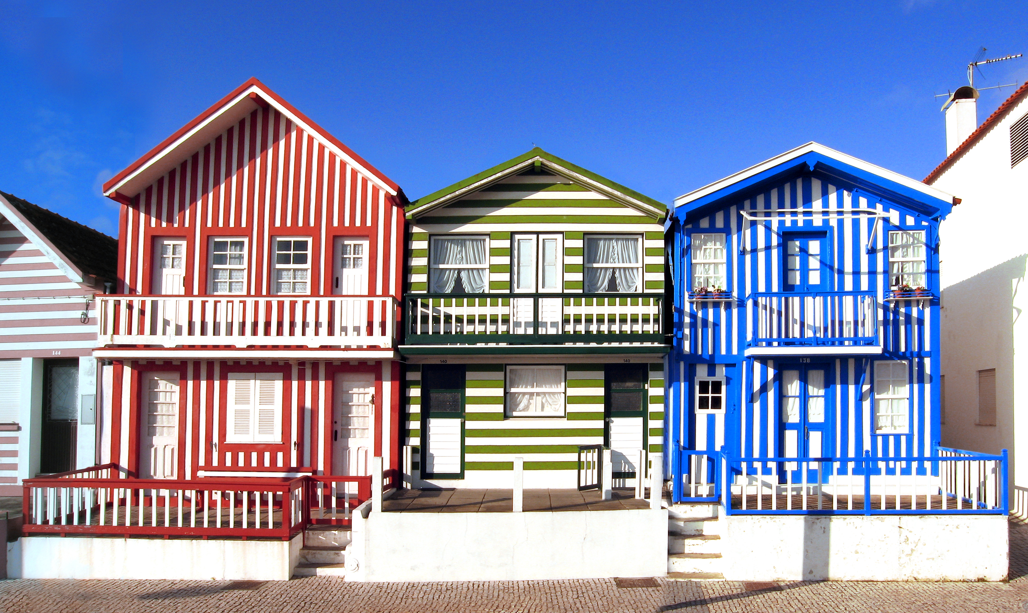 The traditional fishermans house in Costa Nova do Prado in the district of Aveiro Portugal